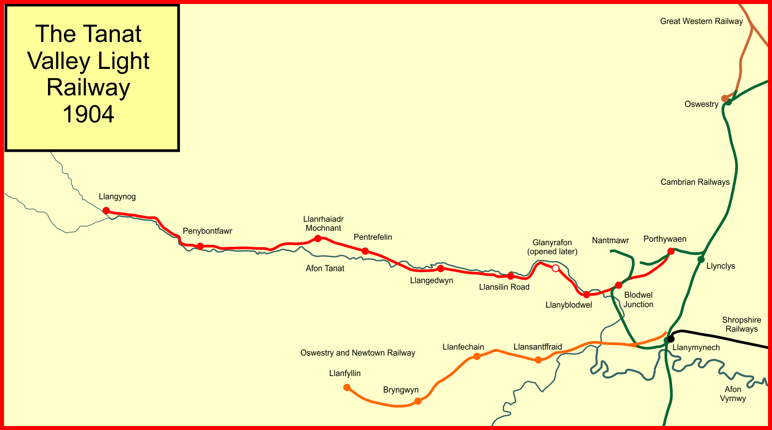 System map of the Tanat Valley Light Railway, United Kingdom, opened in 1904